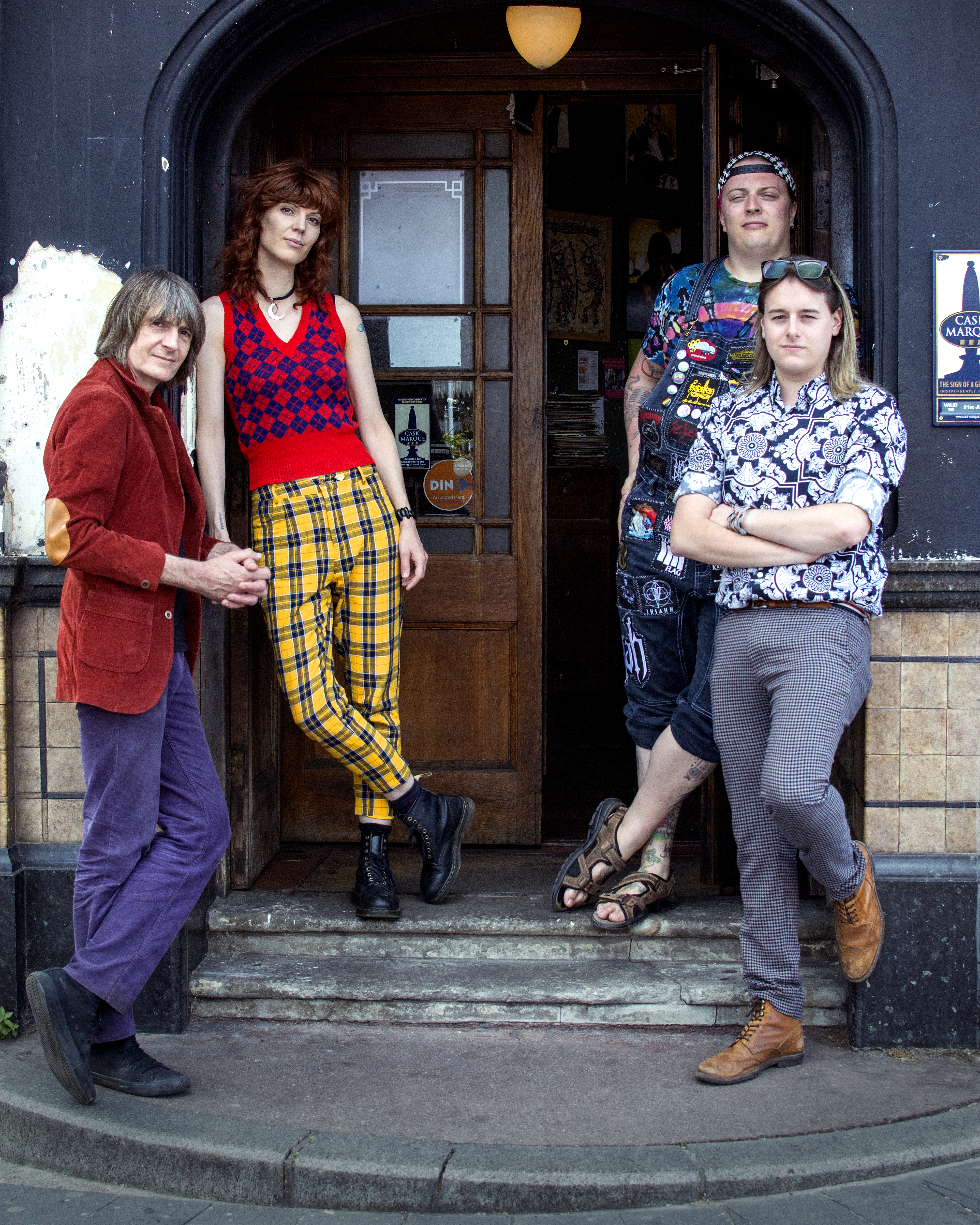 [2019] The Landlords and Management of the Railway Hotel, Southend. Dave Dulake, Fiona Dulake, RJ Learmouth, and James Vessey-Miller